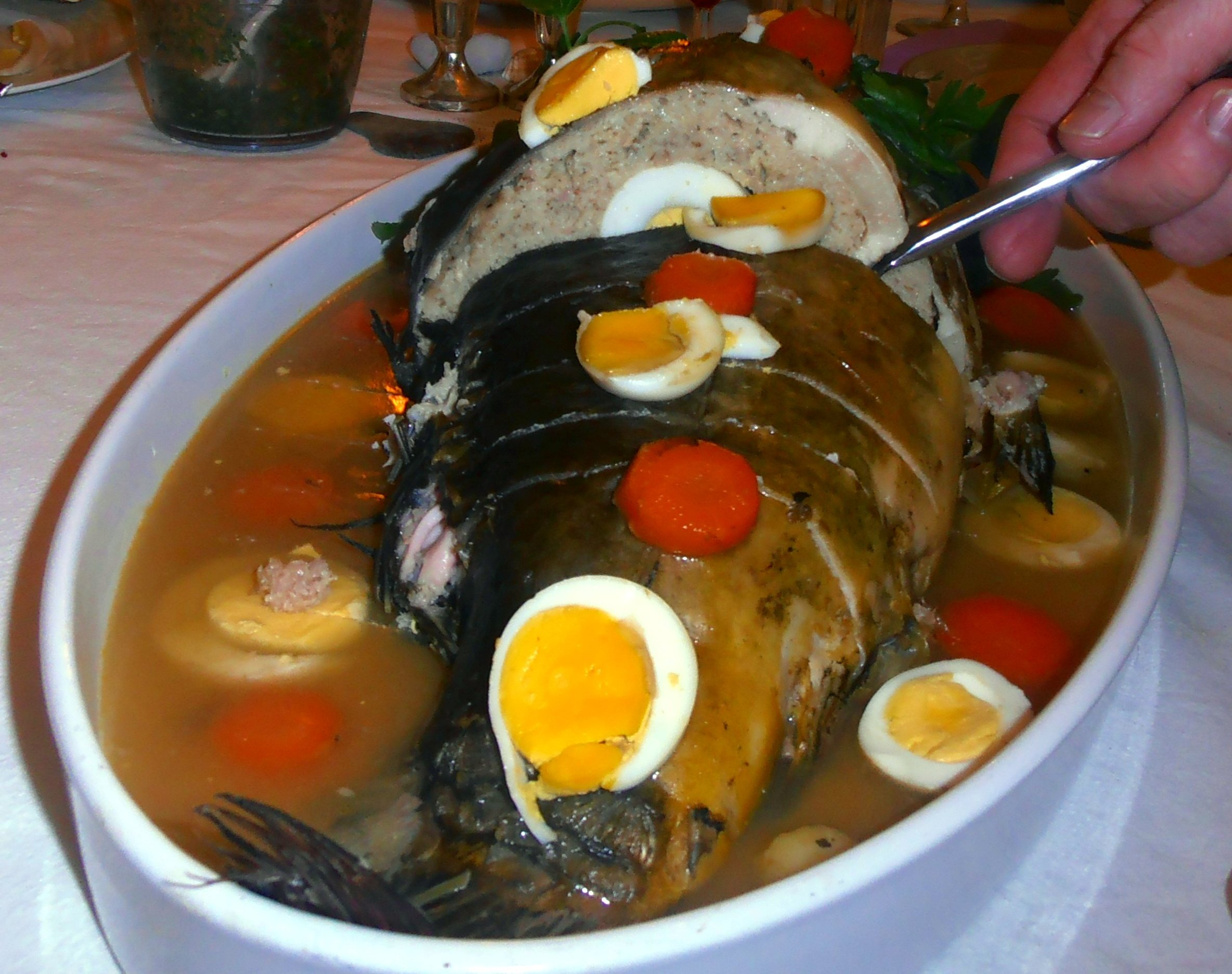 gefilte fish: East European Jewish dish for Shabbat and holidays - original cooking method: a whole fish stuffed